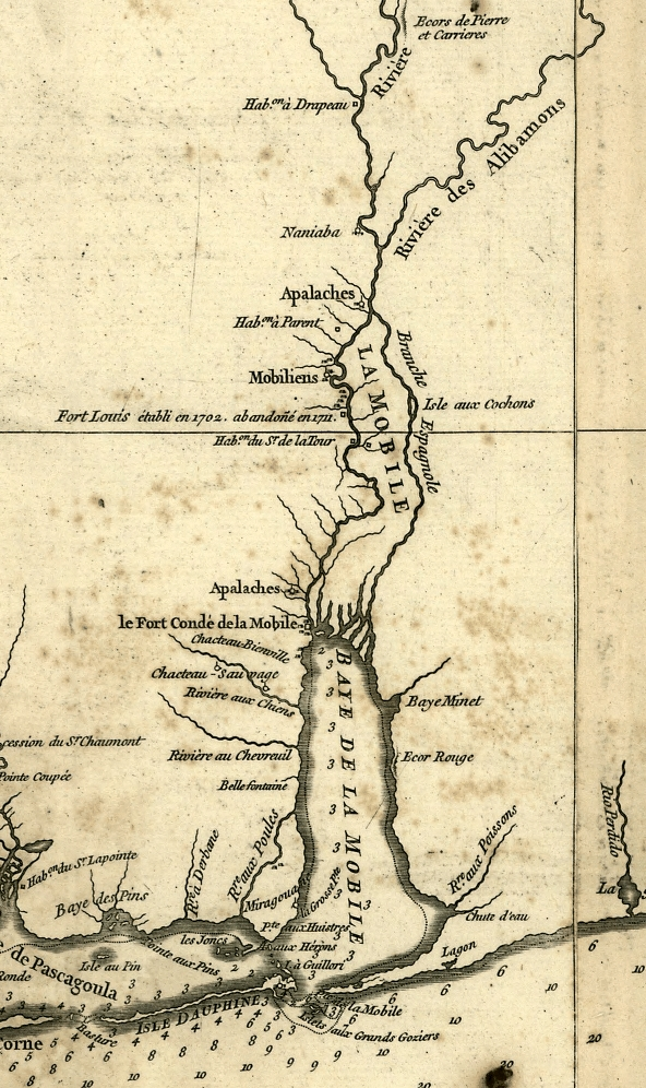 A detail of Anville's 1732 map of Louisiana showing Mobile Bay, the Mobile colony, and surrounding Native American settlements and villages.